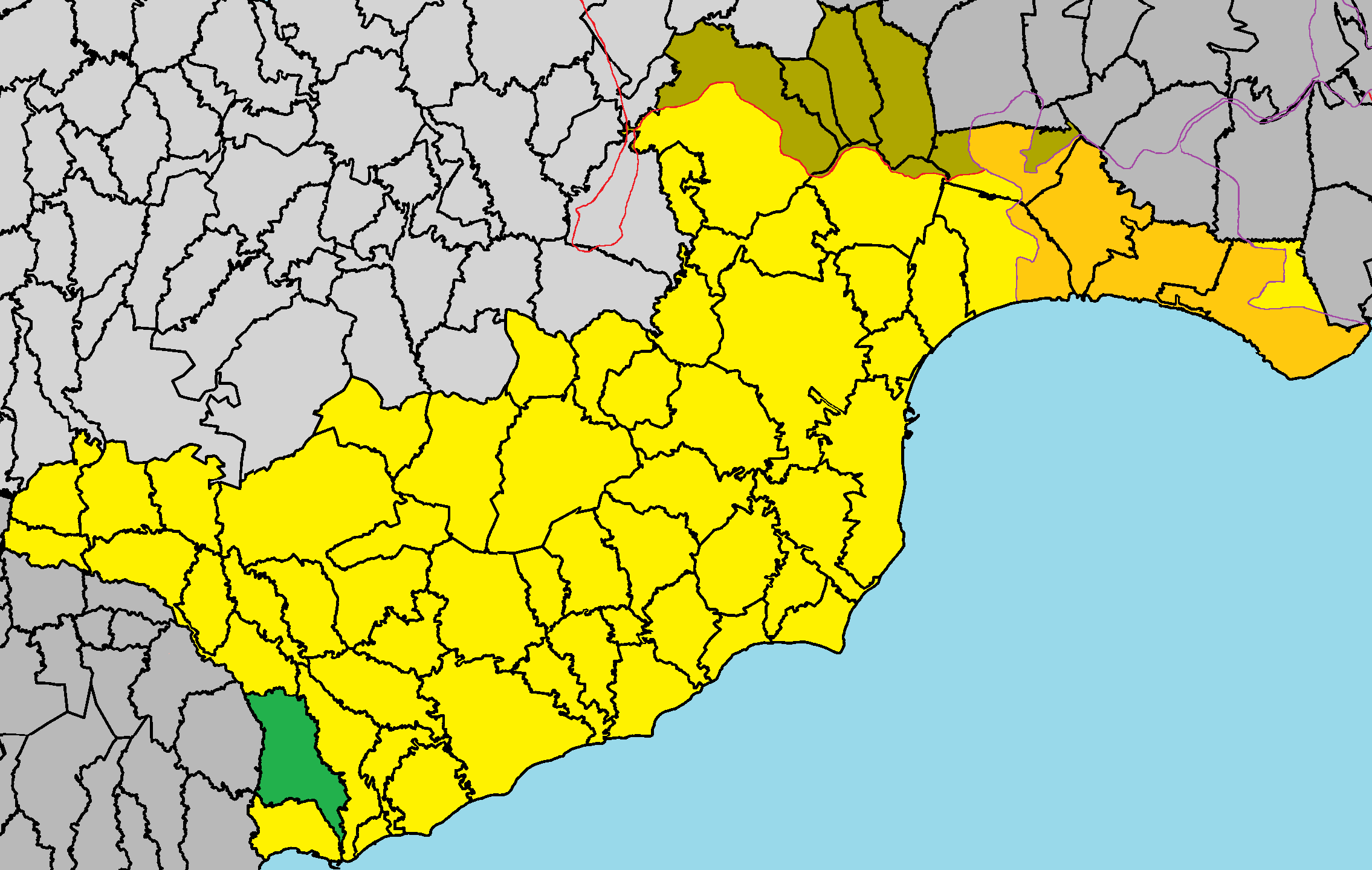 Kalavasos in Larnaca District.